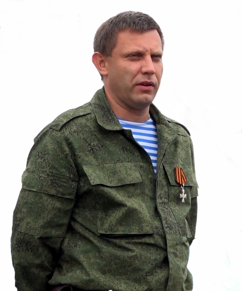 Prime Minister of DPR Aleksandr Zakharchenko, September 8, 2014.